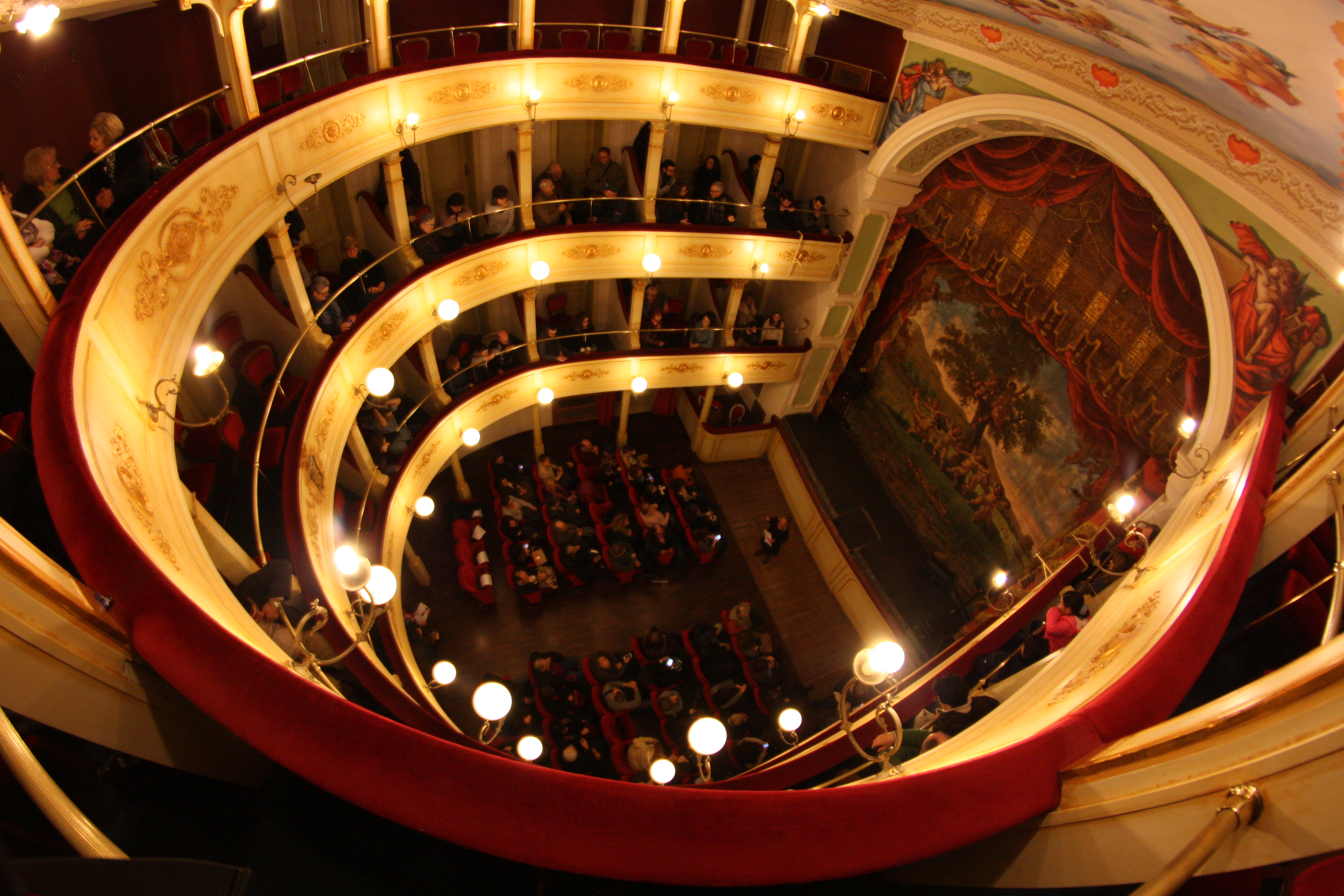 Teatro Van Westerhout - Mola di Bari